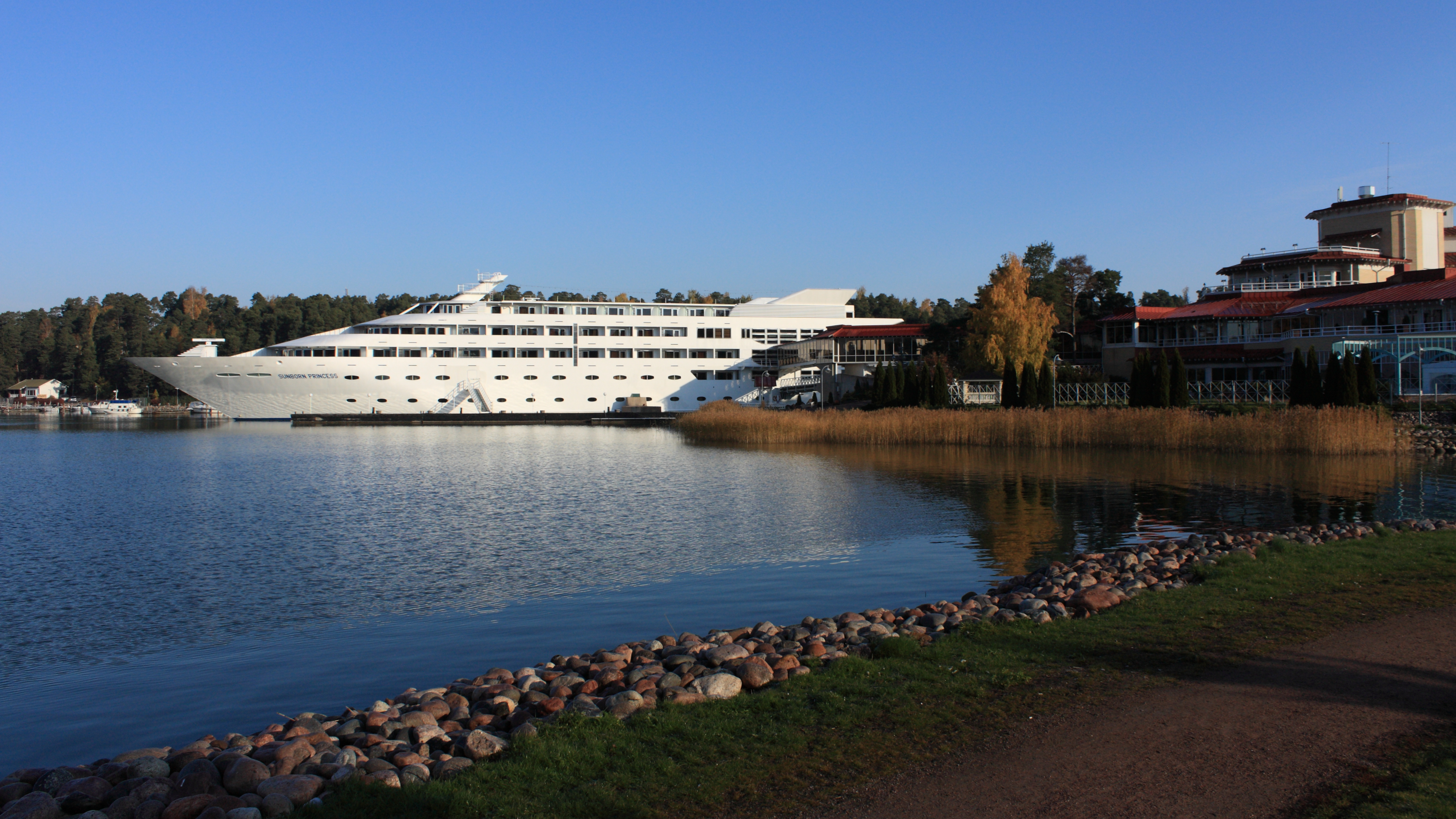 Naantali Spa and its Sunborn Princess Yacht.